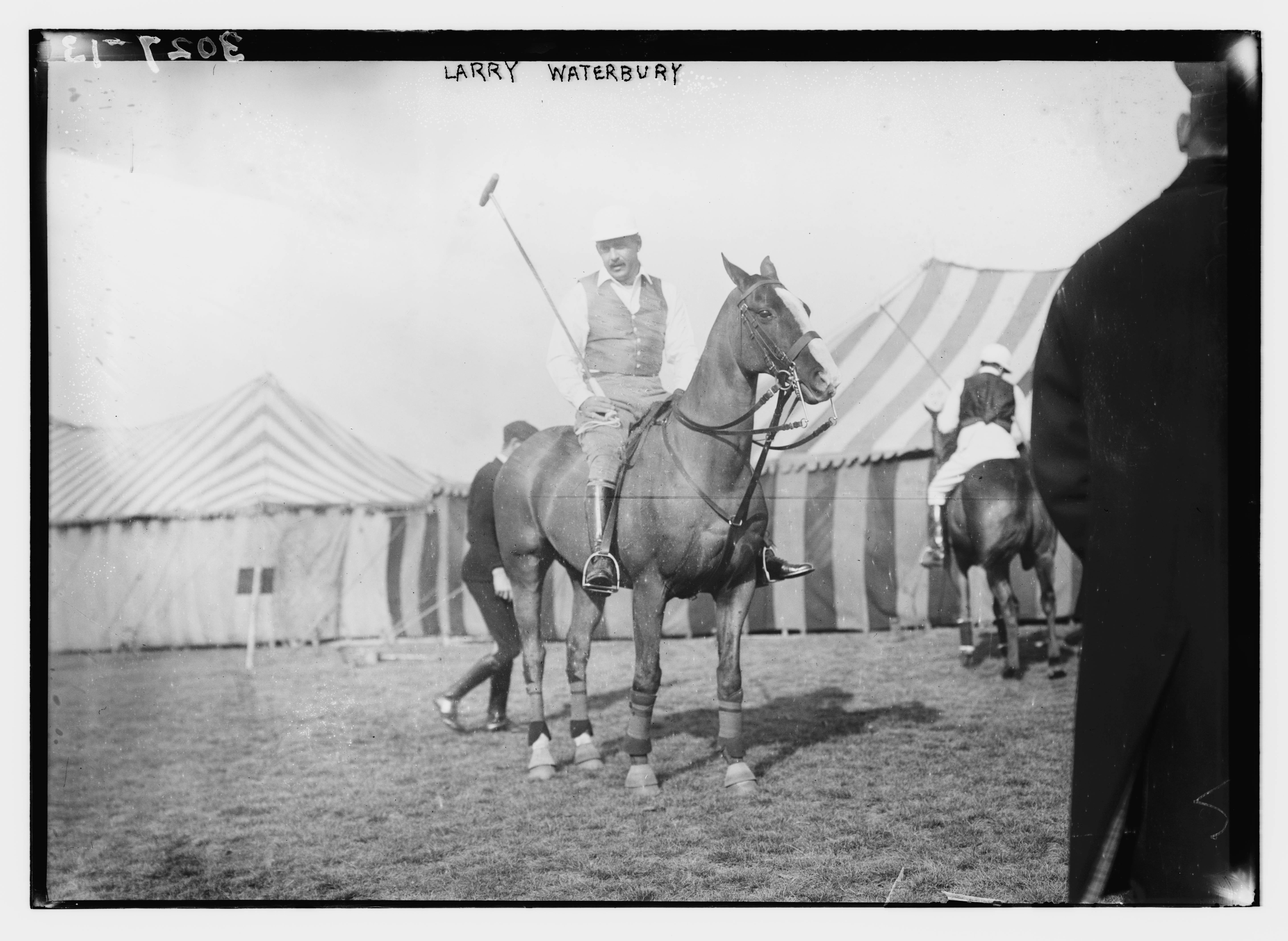 Larry Waterbury circa 1914 Bain News Service,, publisher. Larry Waterbury [between ca. 1910 and ca. 1915] 1 negative : glass ; 5 x 7 in. or smaller. Notes: Title from unverified data provided by the Bain News Service on the negatives or caption cards. Forms part of: George Grantham Bain Collection (Library of Congress). Format: Glass negatives. Repository: Library of Congress, Prints and Photographs Division, Washington, D.C. 20540 USA, General information about the Bain Collection is available at Persistent URL: Call Number: LC-B2- 3027-13